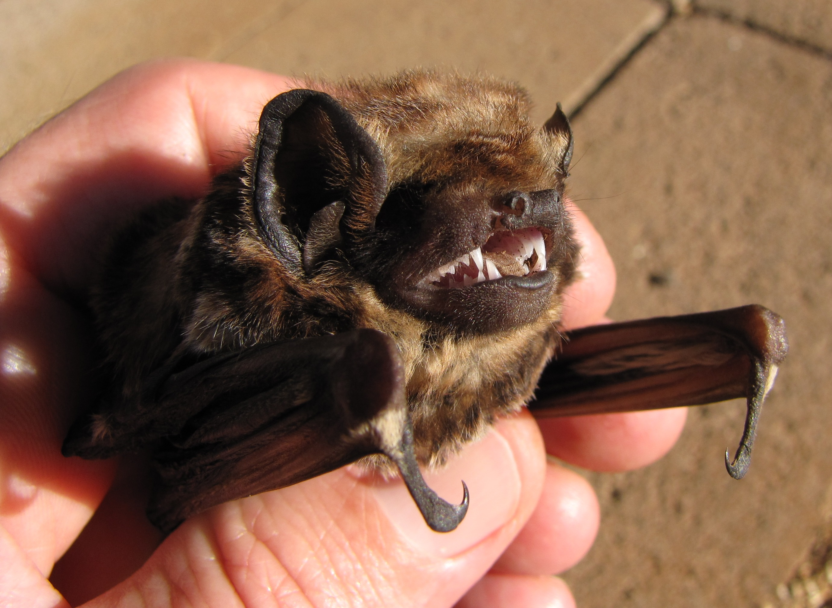 Lasiurus cinereus semotus image crop